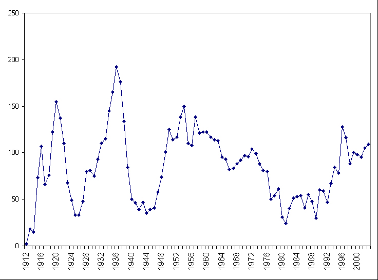 cinema uk statistics